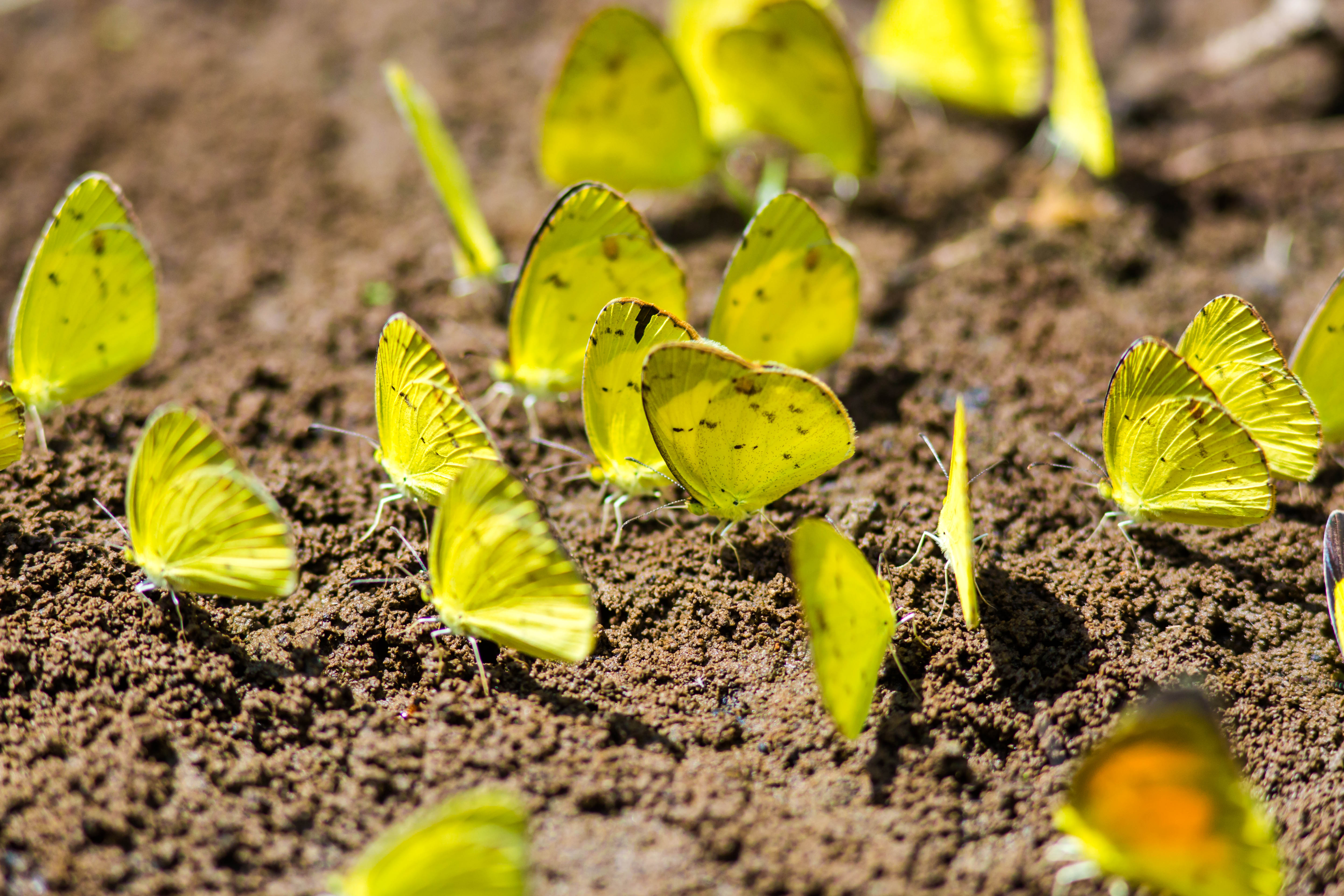 Little yellow